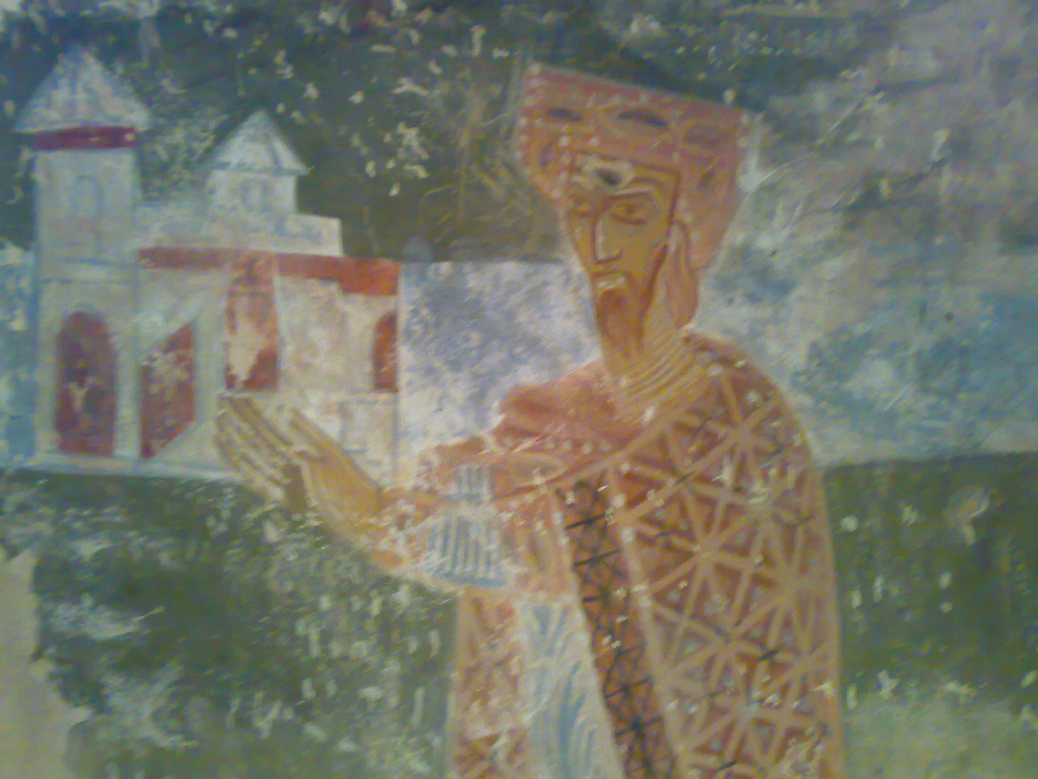 Fresco of Mihailo I of Duklja (modern-day Montenegro). Photo shot in Hist Museum, Cetinje, Montenegro.